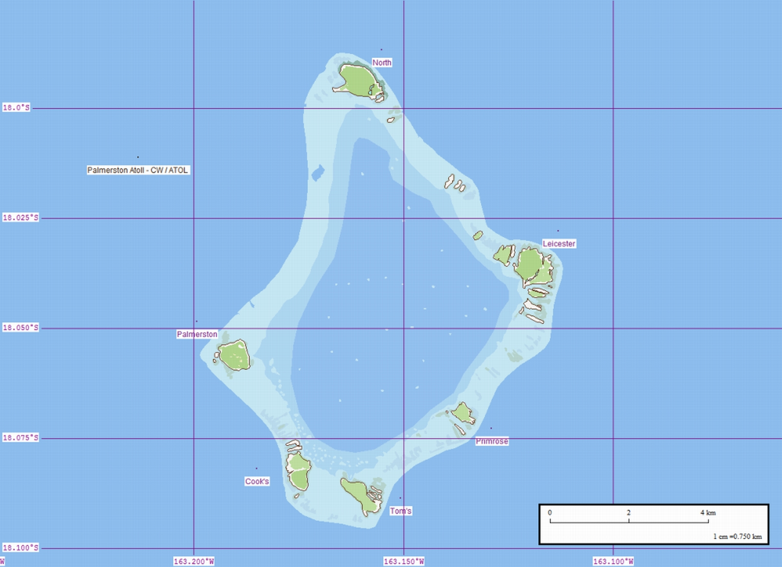 Palmerston Island map